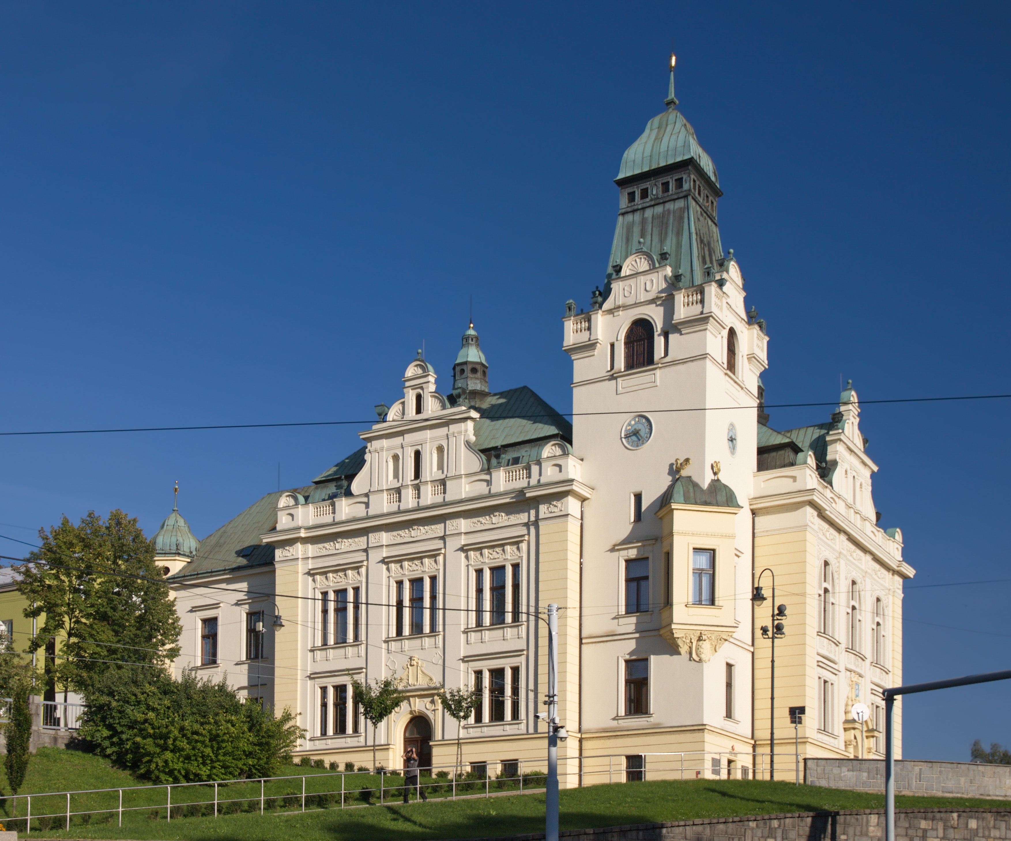 Town hall, Slezská Ostrava, Ostrava. Moravian-Silesian Region, Czech Republic.